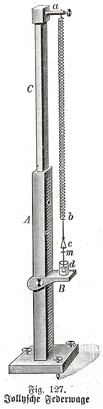 Jolly spring balance